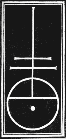 Nicolaus Jenson (1420 - 1480), typographer's mark